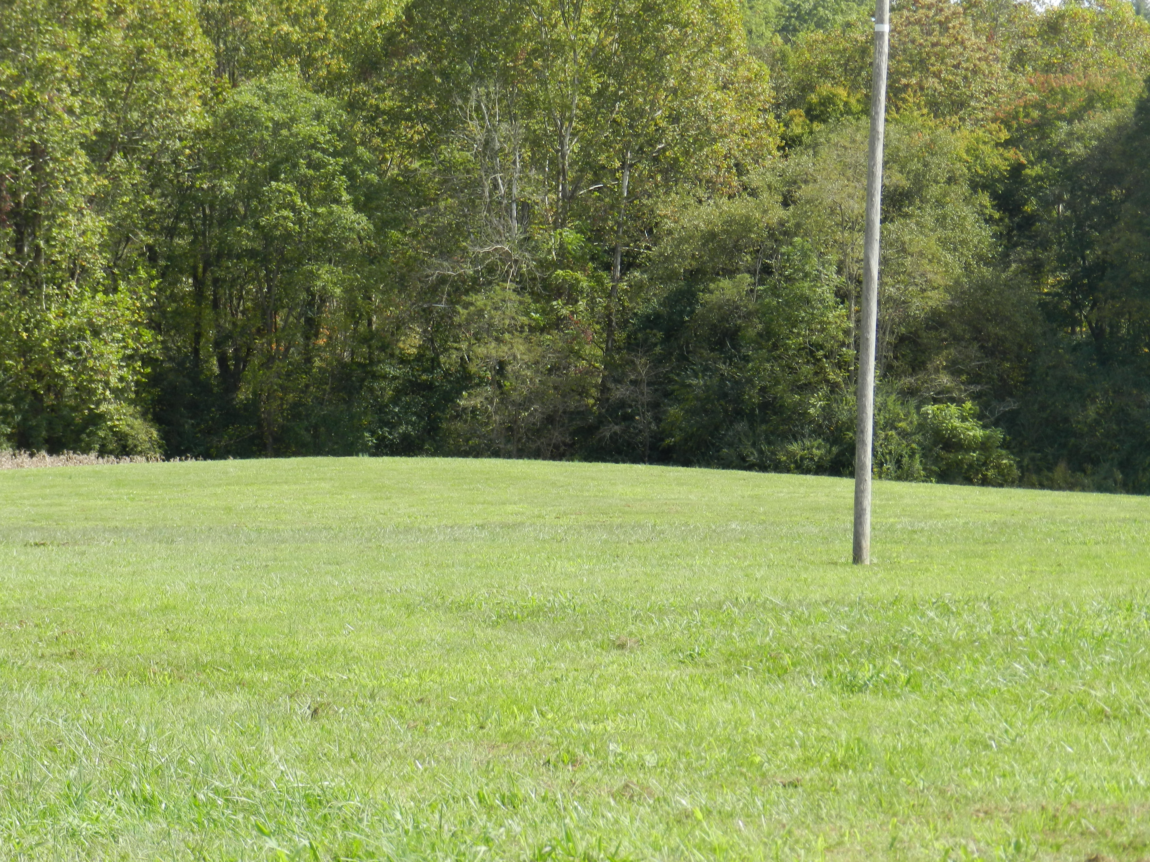 The Kituwa Mound outside Bryson City, North Carolina. Sacred place of the Cherokees and according to tribal legends the site of the first Cherokee town in south eastern North America.